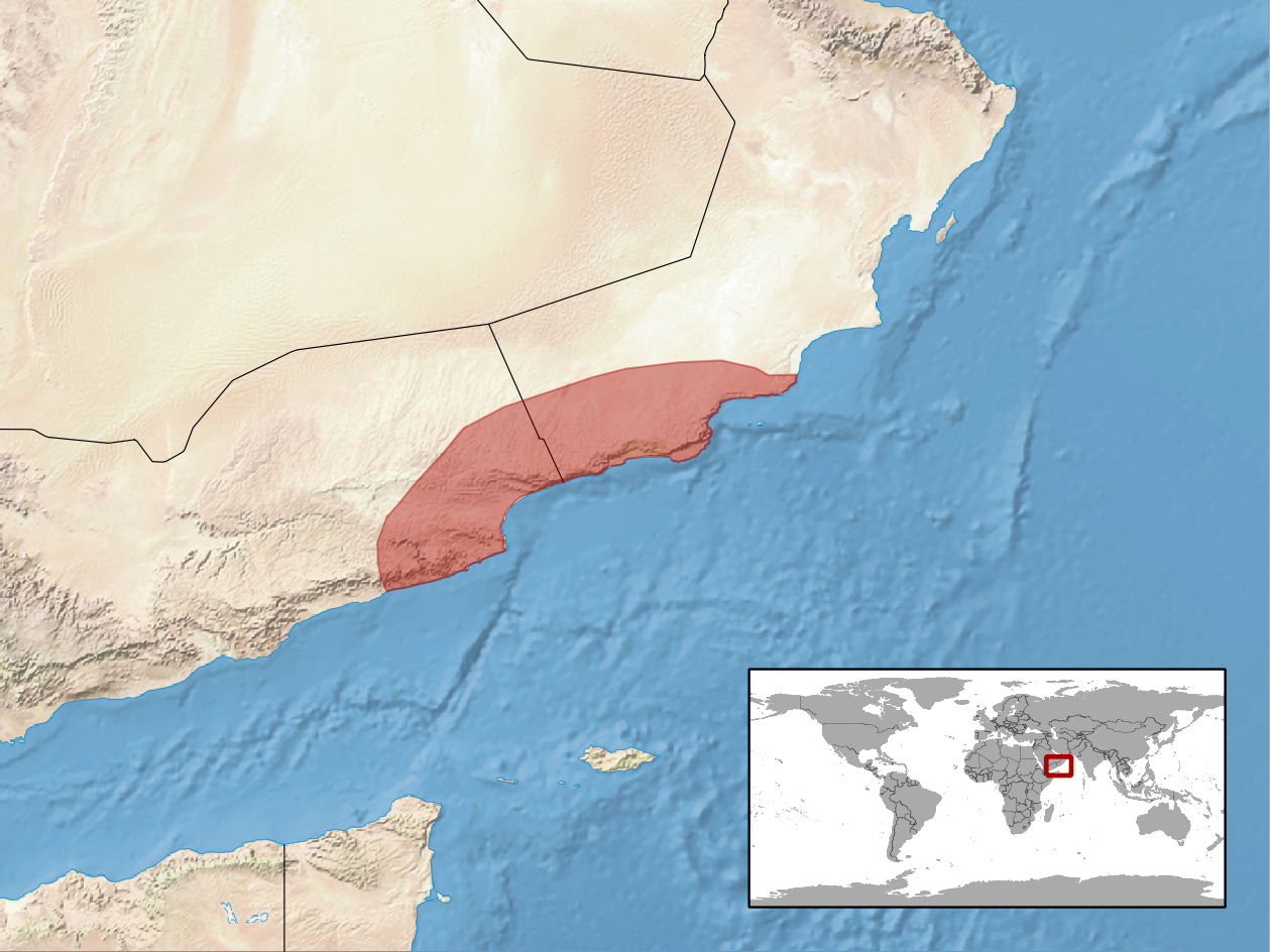 geographic distribution of Echis khosatzkii (Native: Oman; Yemen)